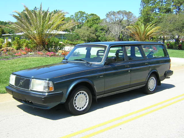 Title: 1990 Volvo 240DL Wagon Full Driver Side Front Wheel Well View Date: March 18, 2004 Photographer: Nicholas Wourms Source: Photographed myself.